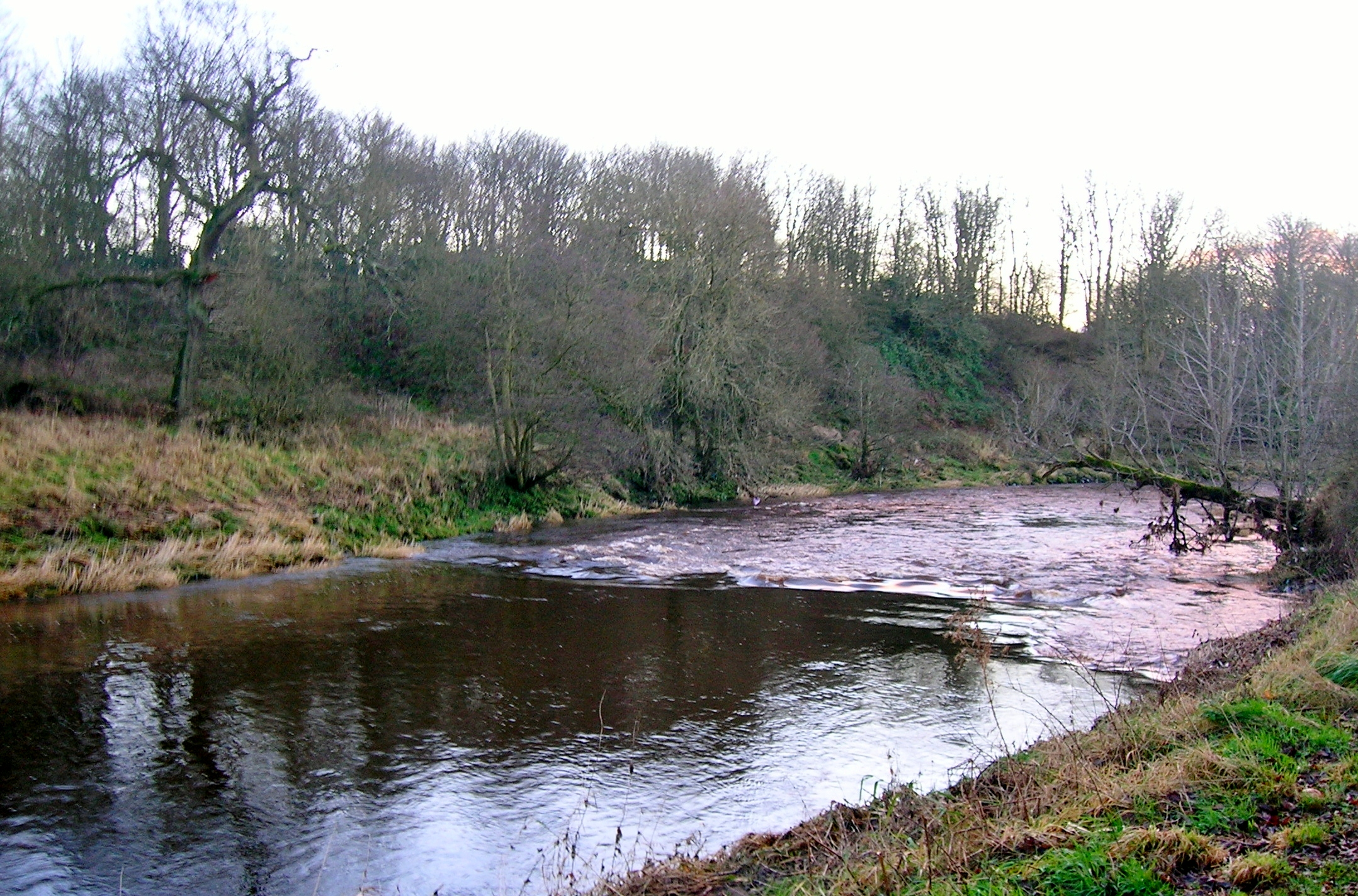 The River Irvine near the site of the old Shewalton House, North Ayrshire, Scotland.